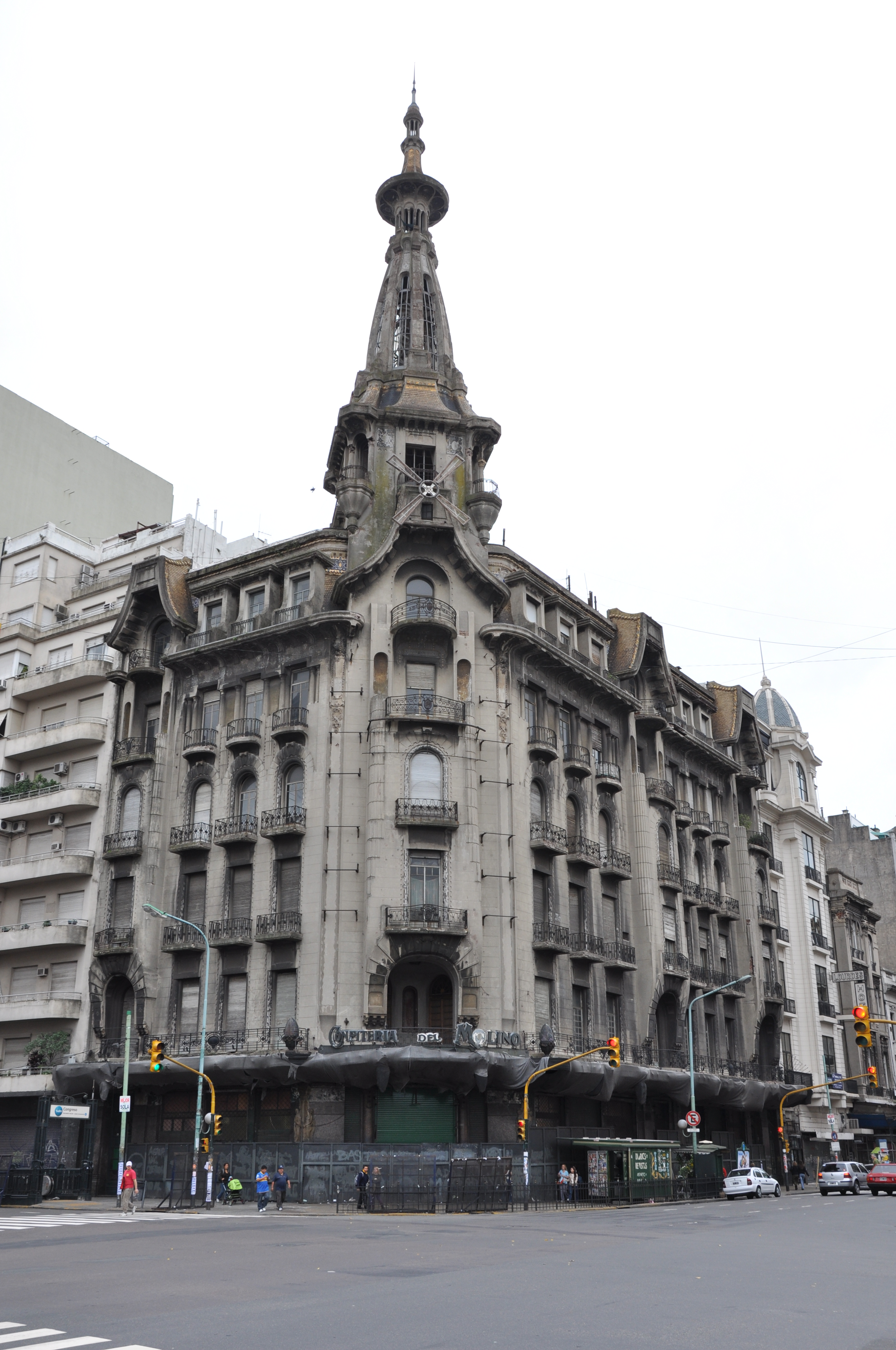 The Confitería El Molino is an Art Nouveau style coffeehouse located on the corner of Callao and Rivadavia Avenues, in front of the Argentine National Congress in Buenos Aires, Argentina. El Molino was declared a National Historic Monument in 1997.